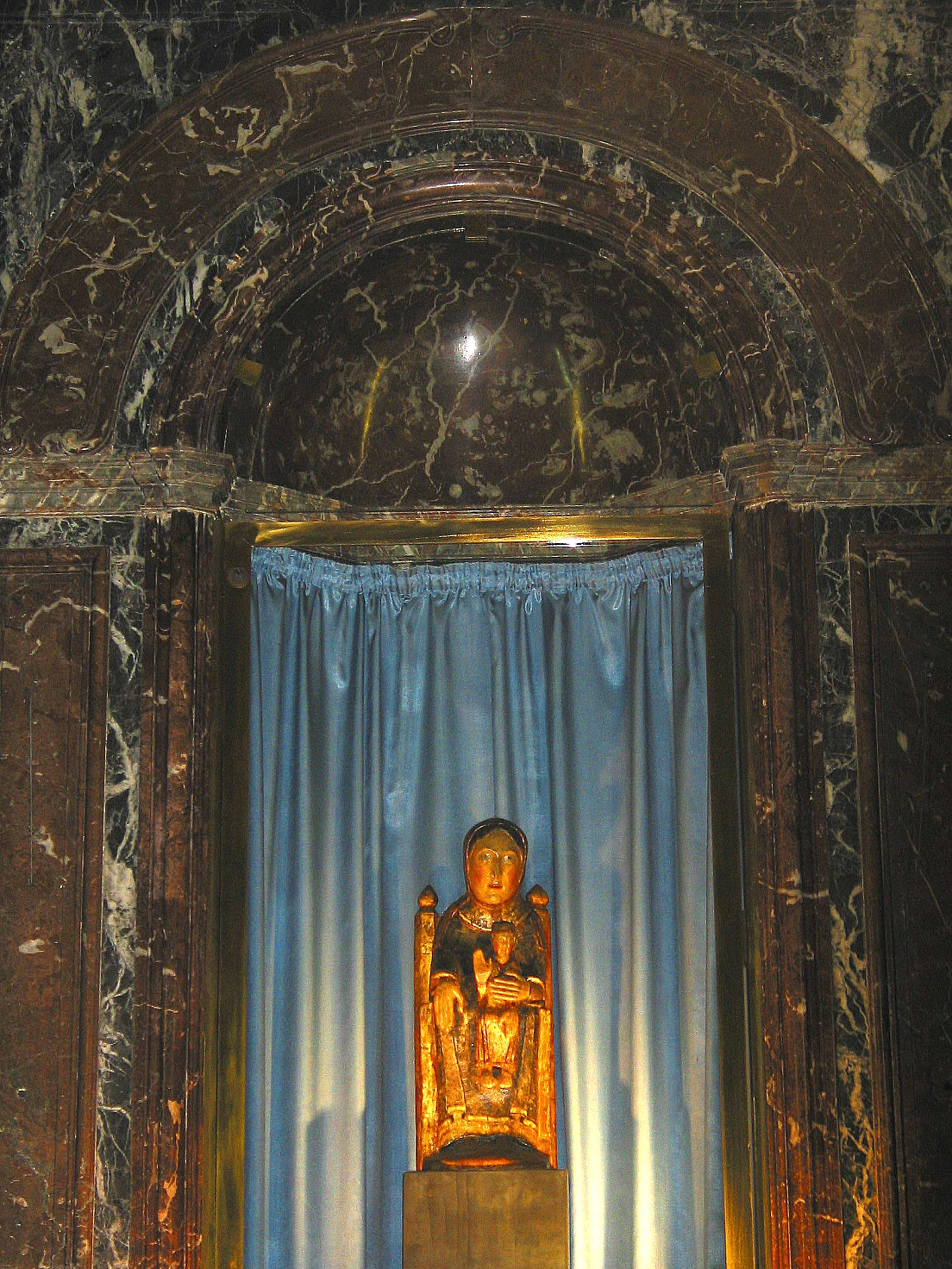 Tongre-Notre-Dame (Belgium), romanesque virgin (1081) of the basilica.